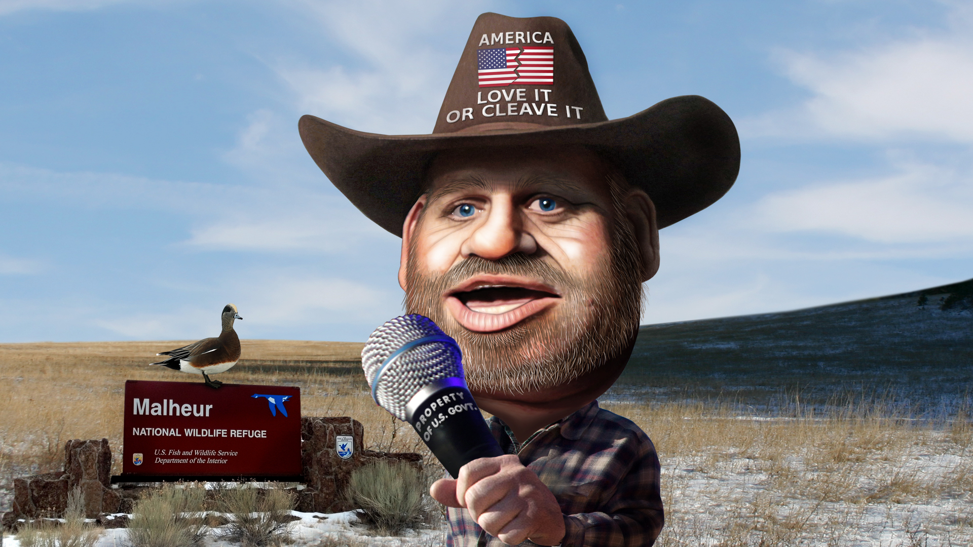 America, Love It Or Cleave It Ammon Bundy, is the spokesperson for a group involved in the occupation of the Malheur National Wildlife Refuge. This caricature of Ammon Bundy was adapted from a Creative Commons licensed photo from Gage Skidmore's Flickr photostream. The sign was adapted from a Creative Commons licensed photo from USFWS - Pacific Region's Flickr photostream. The Widgeon was adapted from a Creative Commons licensed photo from Dennis Jarvis's Flickr photostream.